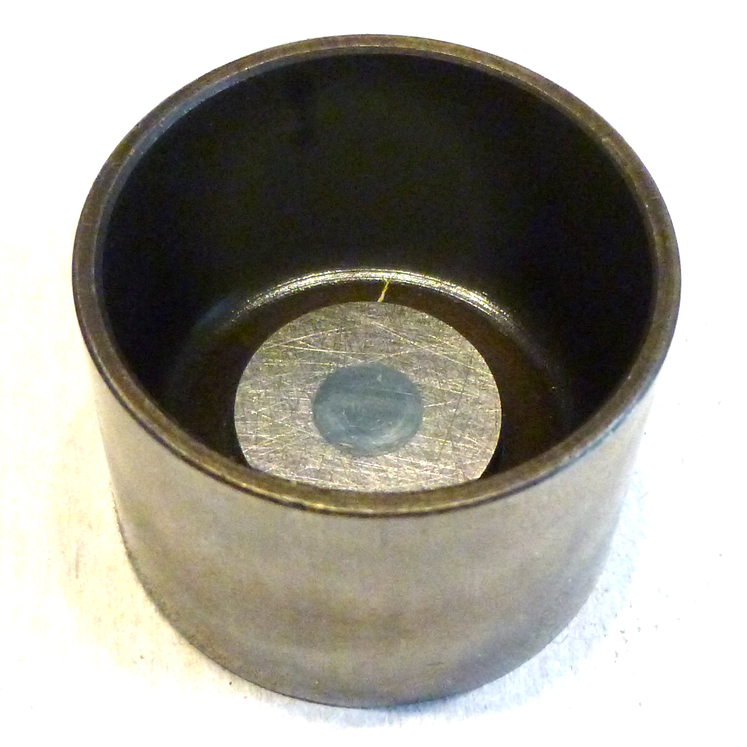 XK Straight Port Head – Tappet with Shim